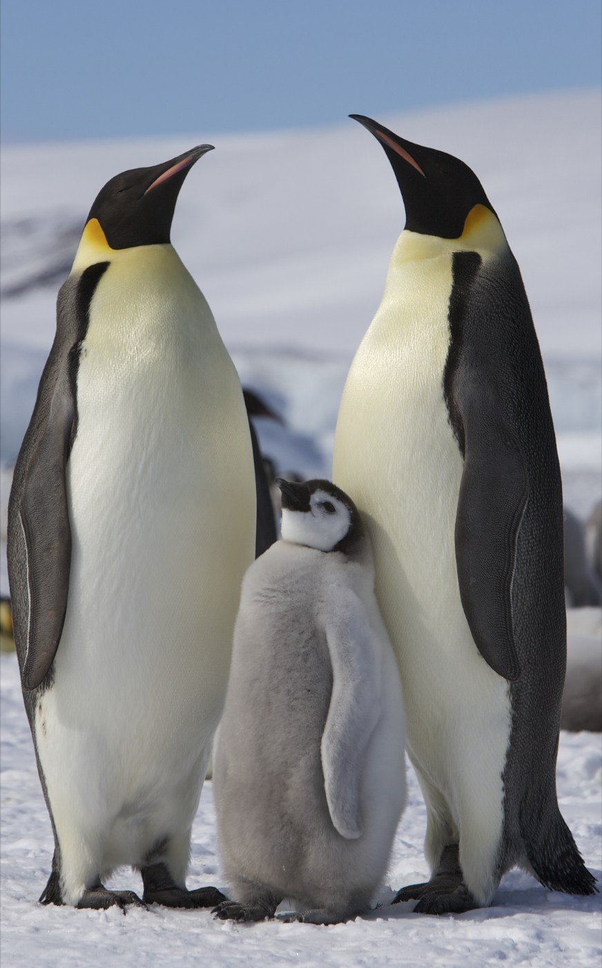 Two adult Emperor Penguins with a juvenile on Snow Hill Island, Antarctica.